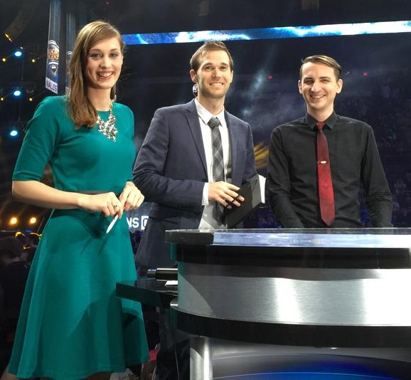 Sjokz, Kobe, and MonteCristo presenting the League of Legends Championship Series EU